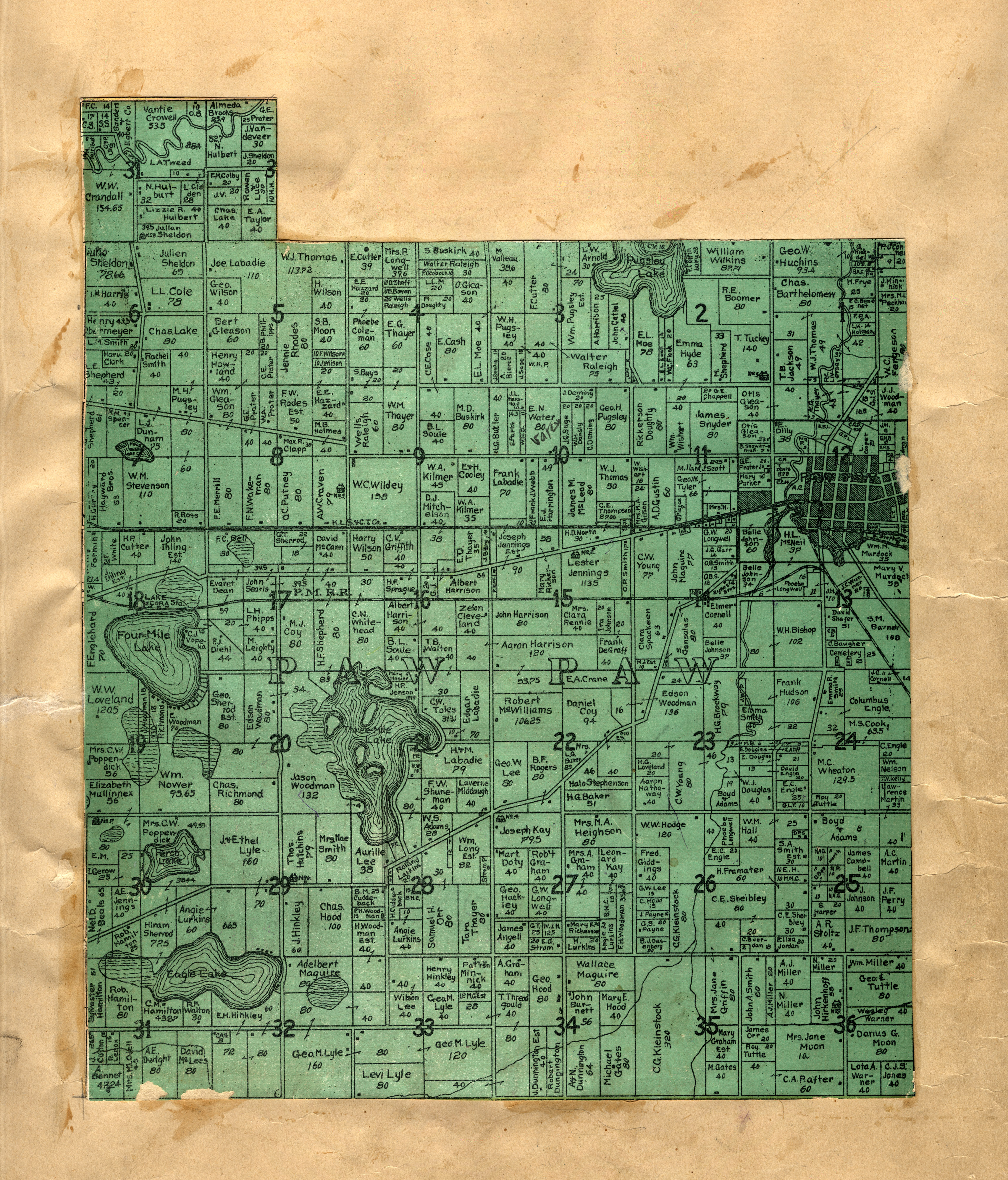 Digital scan of the Paw Paw Township portion of a larger 1906 map of Van Buren County, Michigan. The county map was cut into township-sized pieces, and the pieces were later found pasted into an 1895 atlas of Van Buren County, now in the collection of the Michigan State University Map Library. Each township map cut from the 1906 county map was pasted onto a blank page opposite the map of the corresponding township in the 1895 county atlas. Shows parcel boundaries and names of property owners, Public Land Survey System township and section numbering, roads, railroads, residences, schools, churches, municipalities, and water features. Print version was cut from map: Orton, M. K. A farm map of Vanburen County, Michigan / compiled from official records and local inspection by W.H. Goss, County Surveyor ; drawn by M.K. Orton. Rockford, Ill. : W.W. Hixson, [1906]. MSU Libraries catalog record